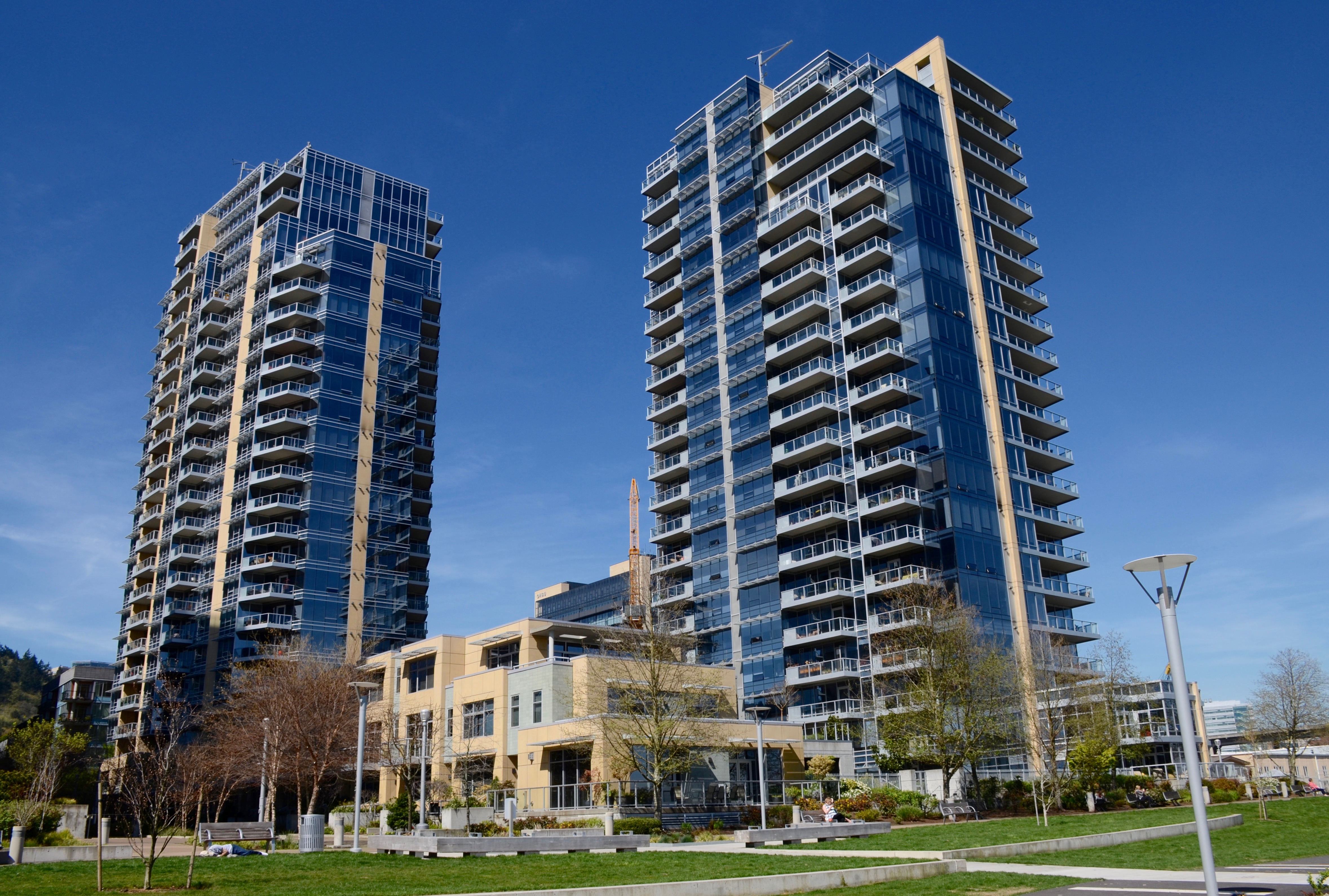 The Meriwether, a two-tower condominium complex in Portland, Oregon, viewed from the southeast.